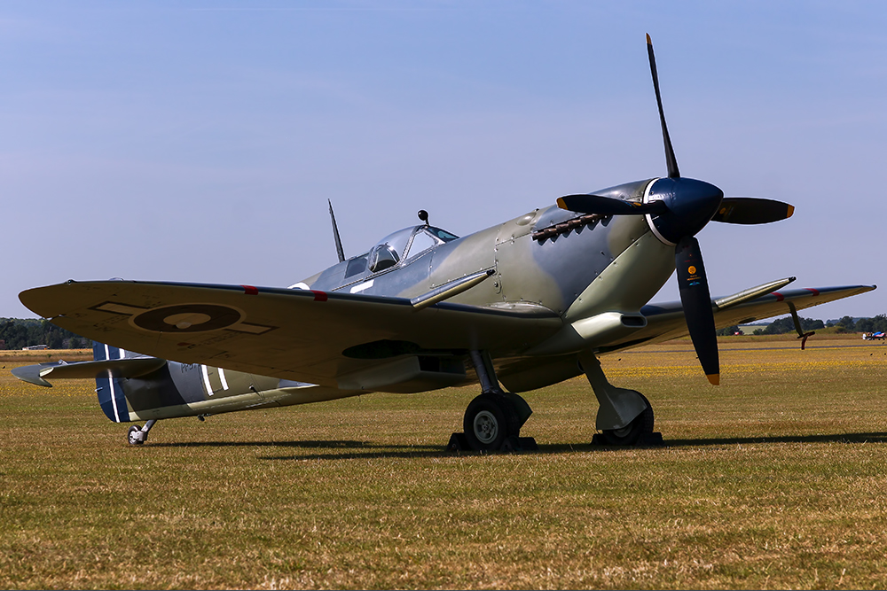 G-BUAR, C/N AIR/2605/C23(C), (1944) - Duxford Flying Legends, 11/07/2015